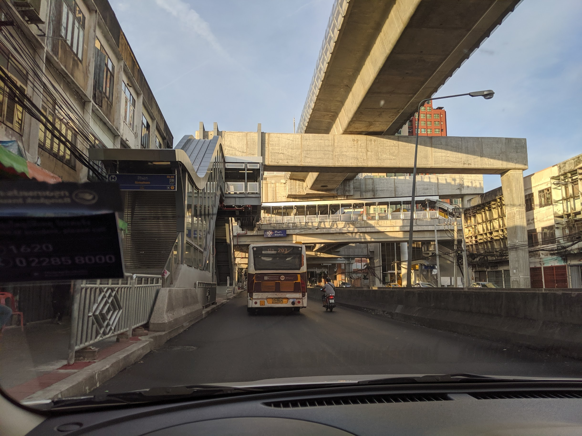 This is an image of the Sirindhorn MRT Blue Line station in Bangkok, Thailand in 2019, under construction for an expected completion in 2020. Photo taken from street level on Charan Sanitwong Road.